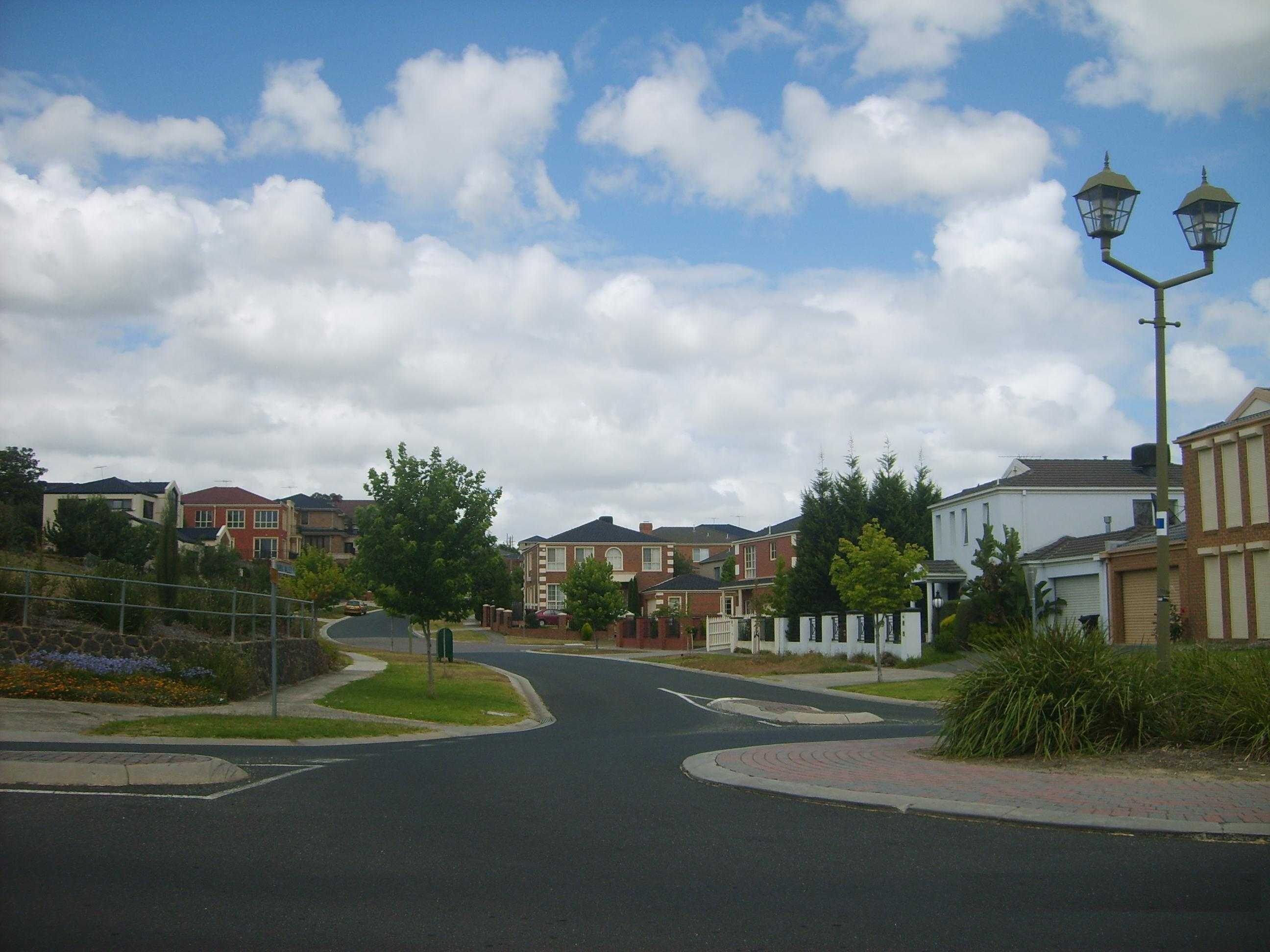 Housing Estate in Bulleen near Sheahans Rd.